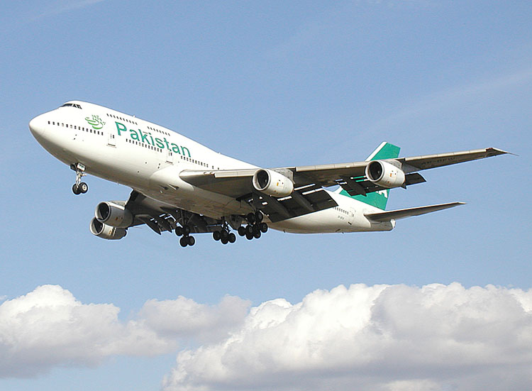 Boeing 747-300 of Pakistan International Airlines (AP-BFW) on the approach to London (Heathrow) Airport.